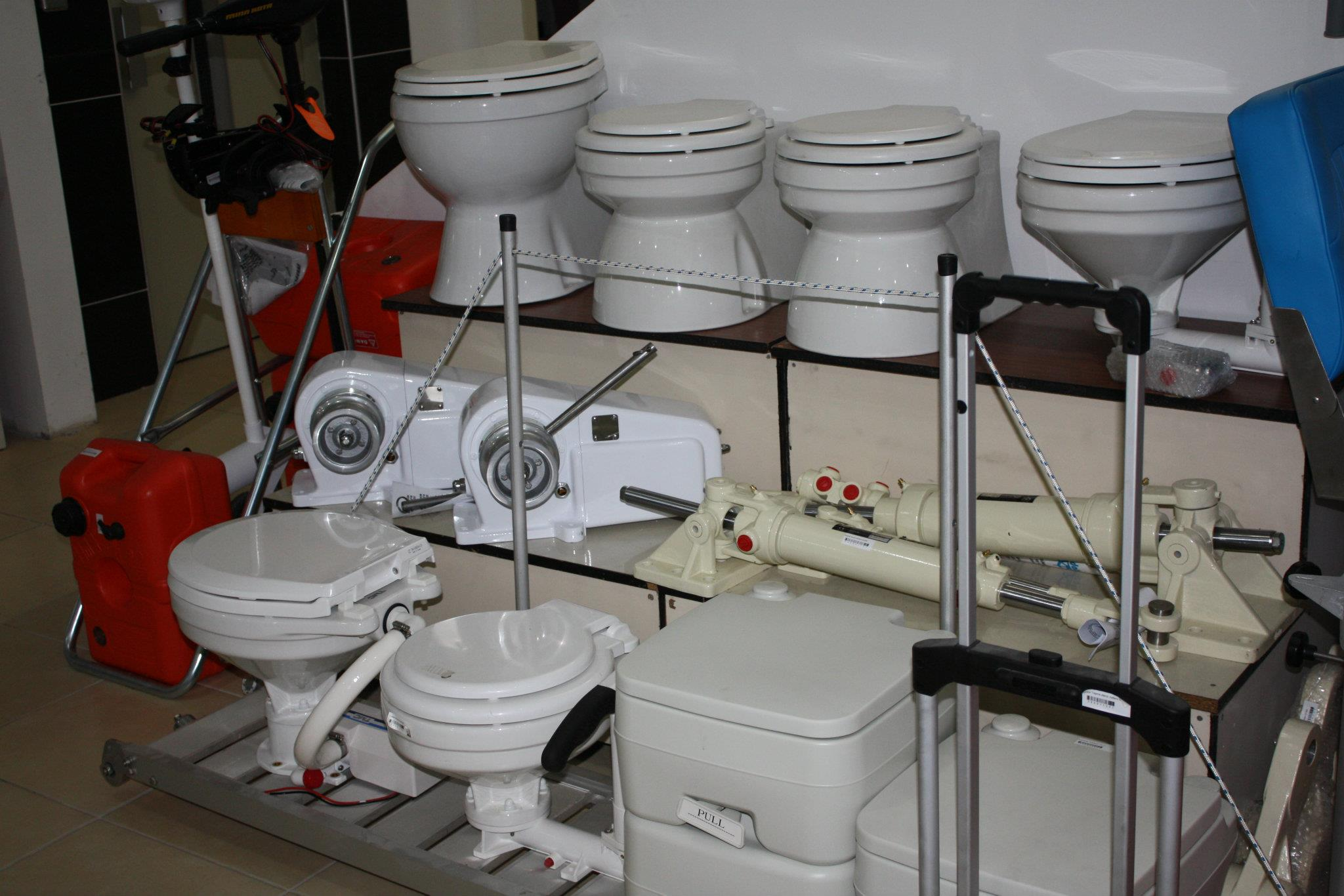 Portable toilets for boats, and yachts in Turkey